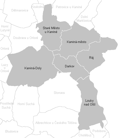 Cadastral map of Karviná